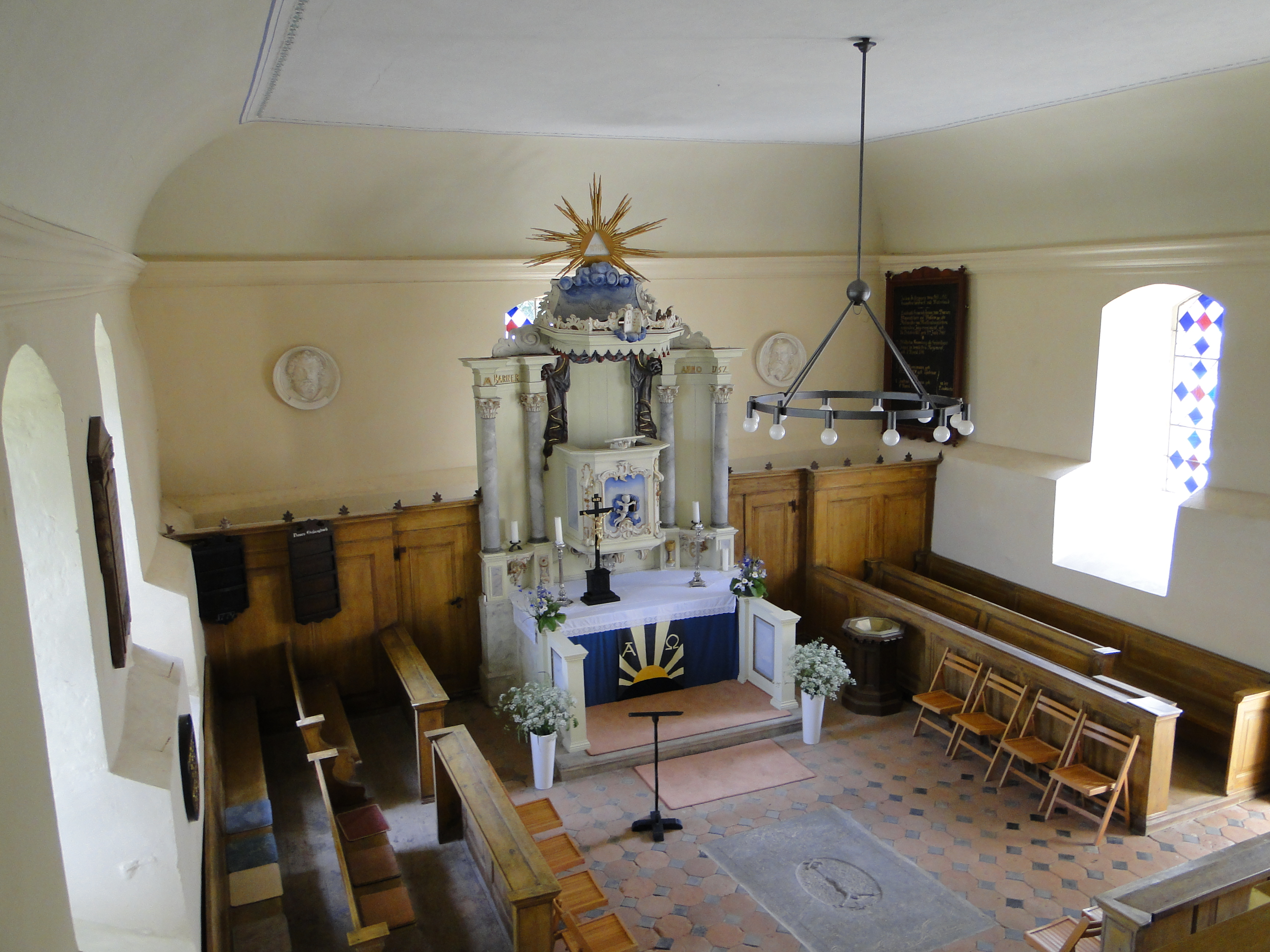 Church in Bülow, district Ludwigslust-Parchim, Mecklenburg-Vorpommern, Germany